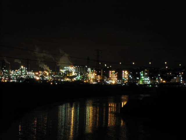 Weston Point at Night No it's not the New York skyline at night. This is part of the huge chemical works beside the river Weaver at Weston Point The site was originally owned by ICI but in recent years has been sold to Ineos